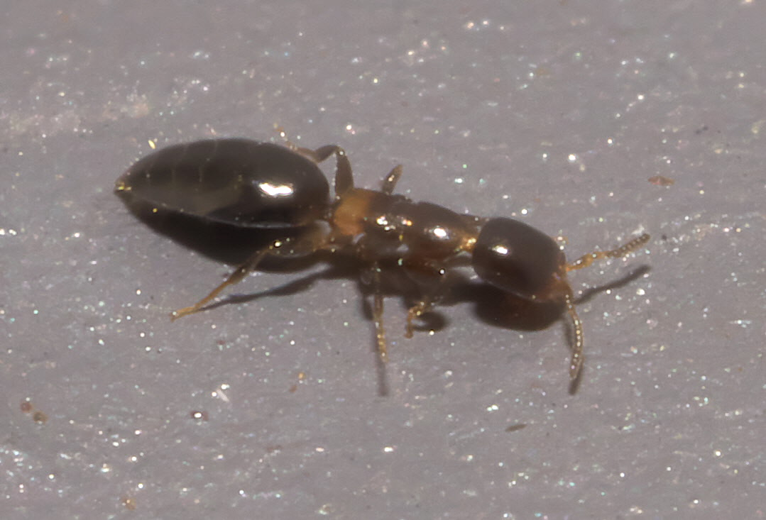 Sclerodermus, Superfamily: Cuckoo Wasps and Allies, Not an ant at all!, Size: 2.4 mm, ID Confidence: 98